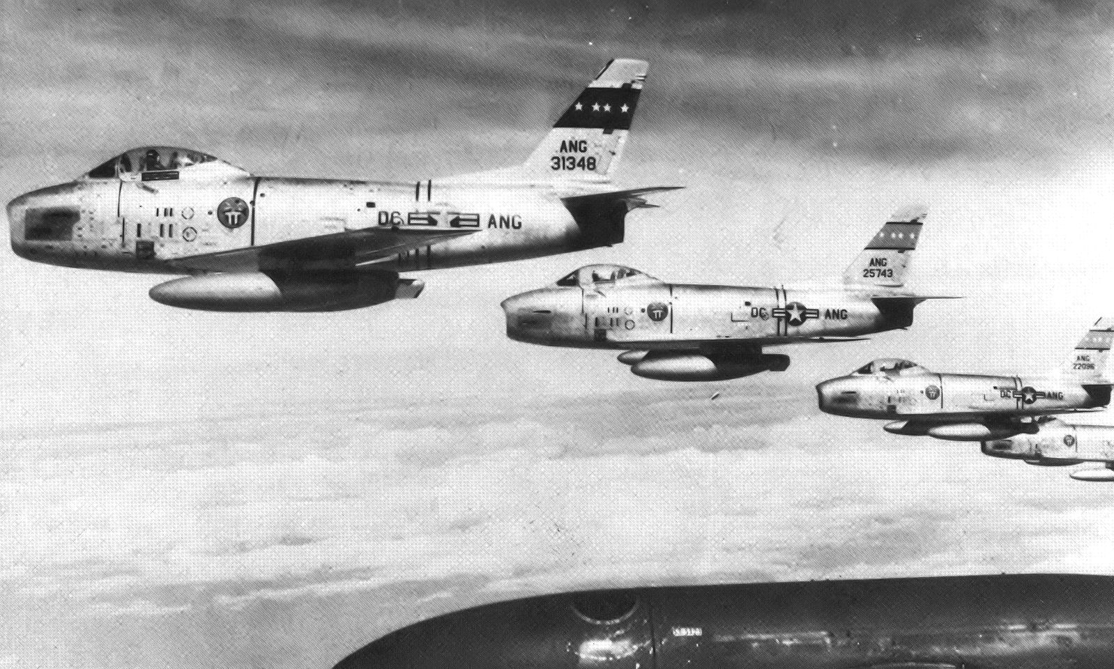 121st Fighter-Interceptor Squadron DC Air National Guard 4-ship F-86H formation, 1960. North American F-86H-10-NH Sabre 53-1348 in foreground, 52-5743 also identified